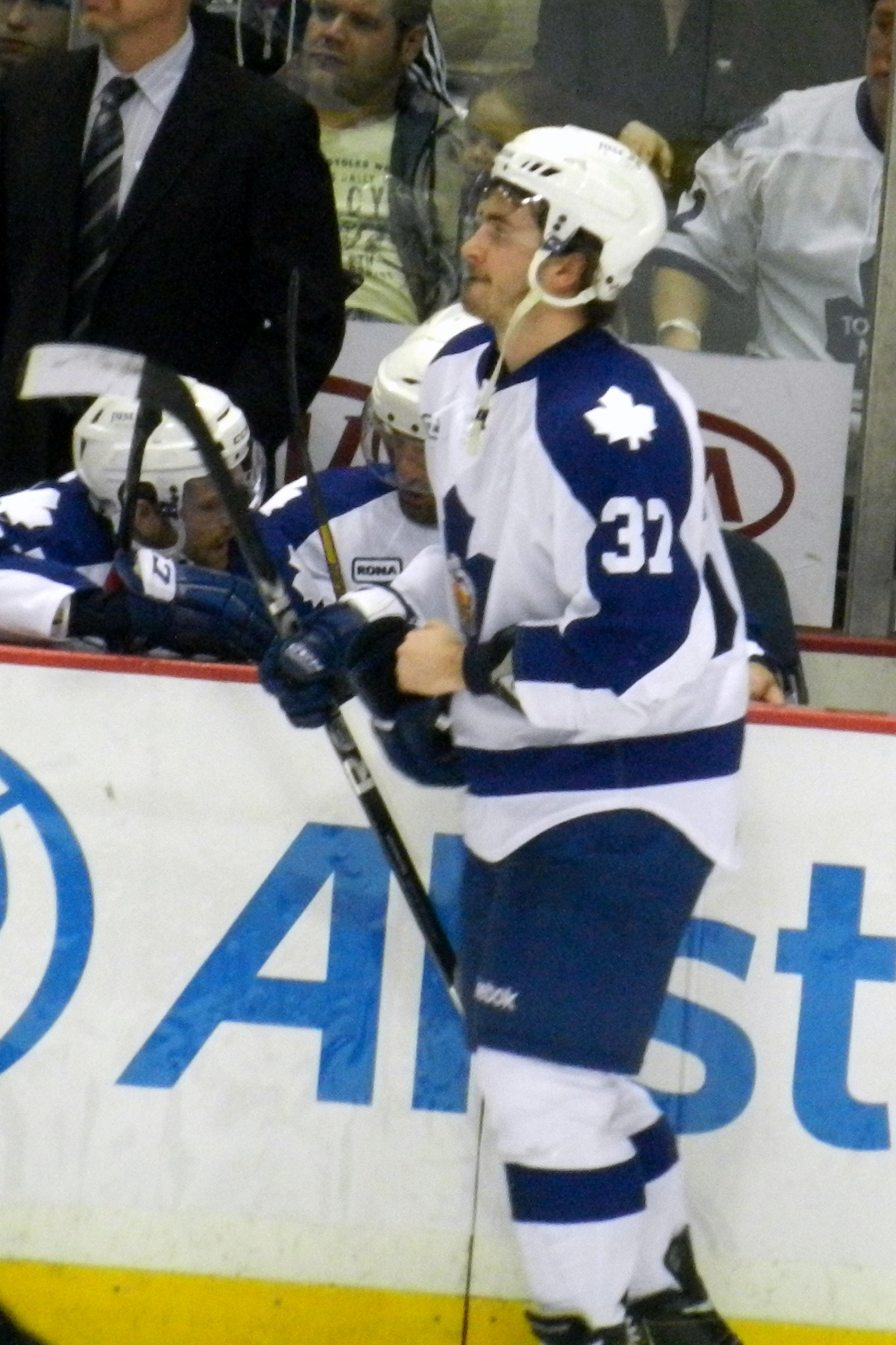 Brad Ross playing for the American Hockey League's Toronto Marlies in 2013